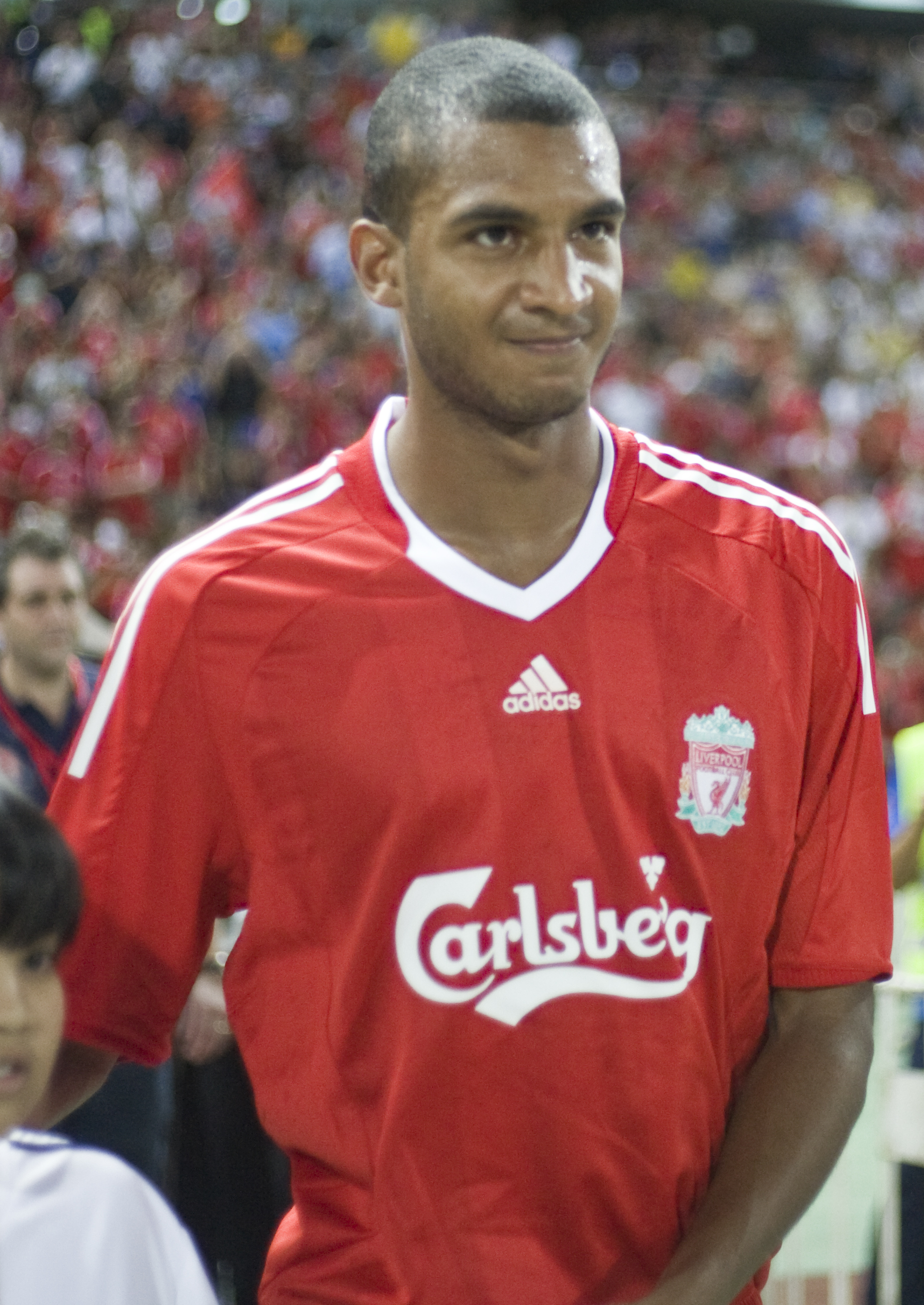 David N'Gog playing for Liverpool in 2009